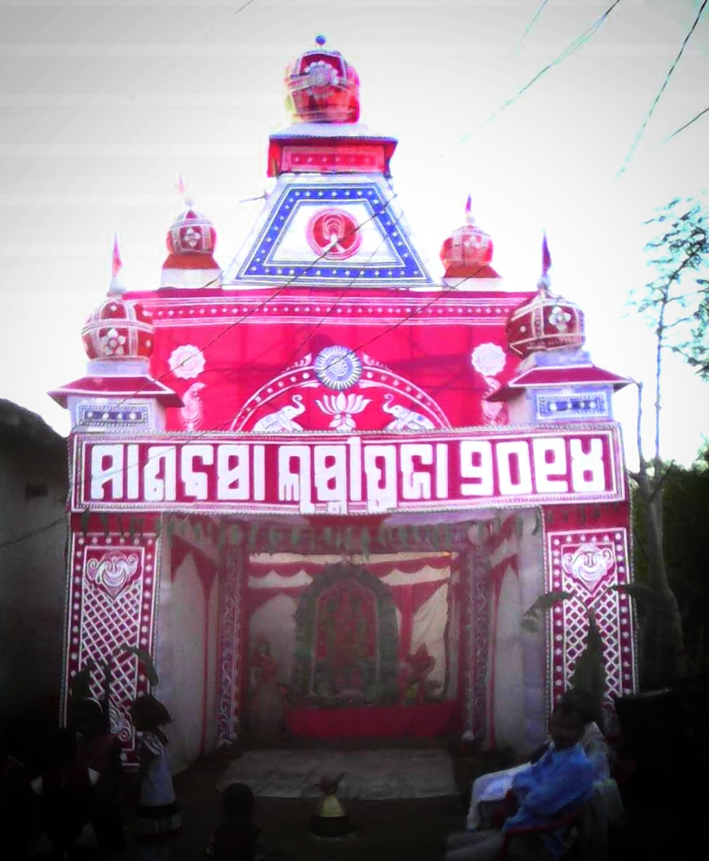 Manabasa Laxmi Puja is one of the important festival celebrated in Bargaon during last few years. It is generally celebrated in the Month of November or December every year.